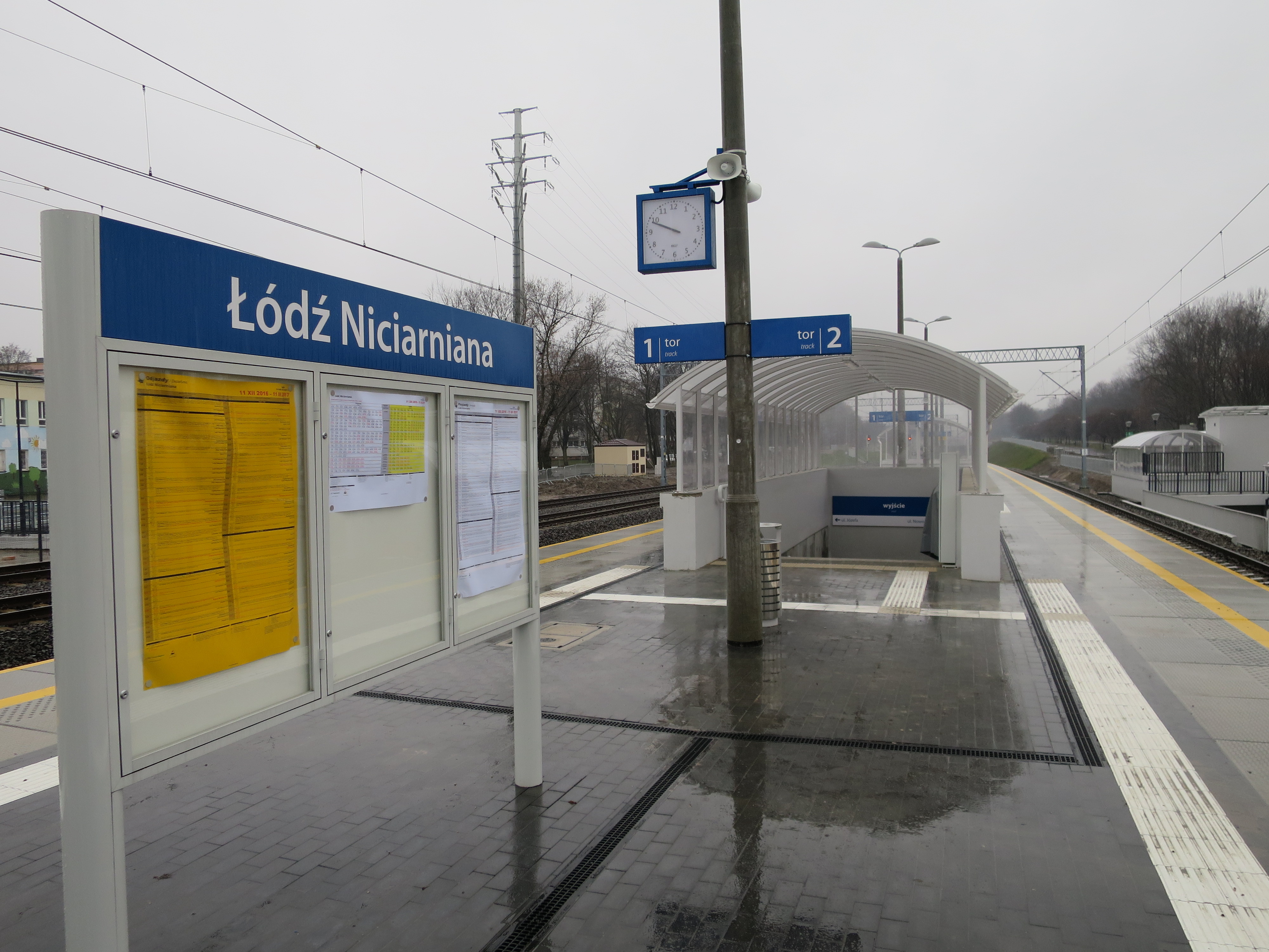 The making of this document was supported by Wikimedia Polska Association, within Wikigrant no. WG 2016-56. Łódź Niciarniana